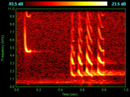 Spectrogram of Pipistrellus social call